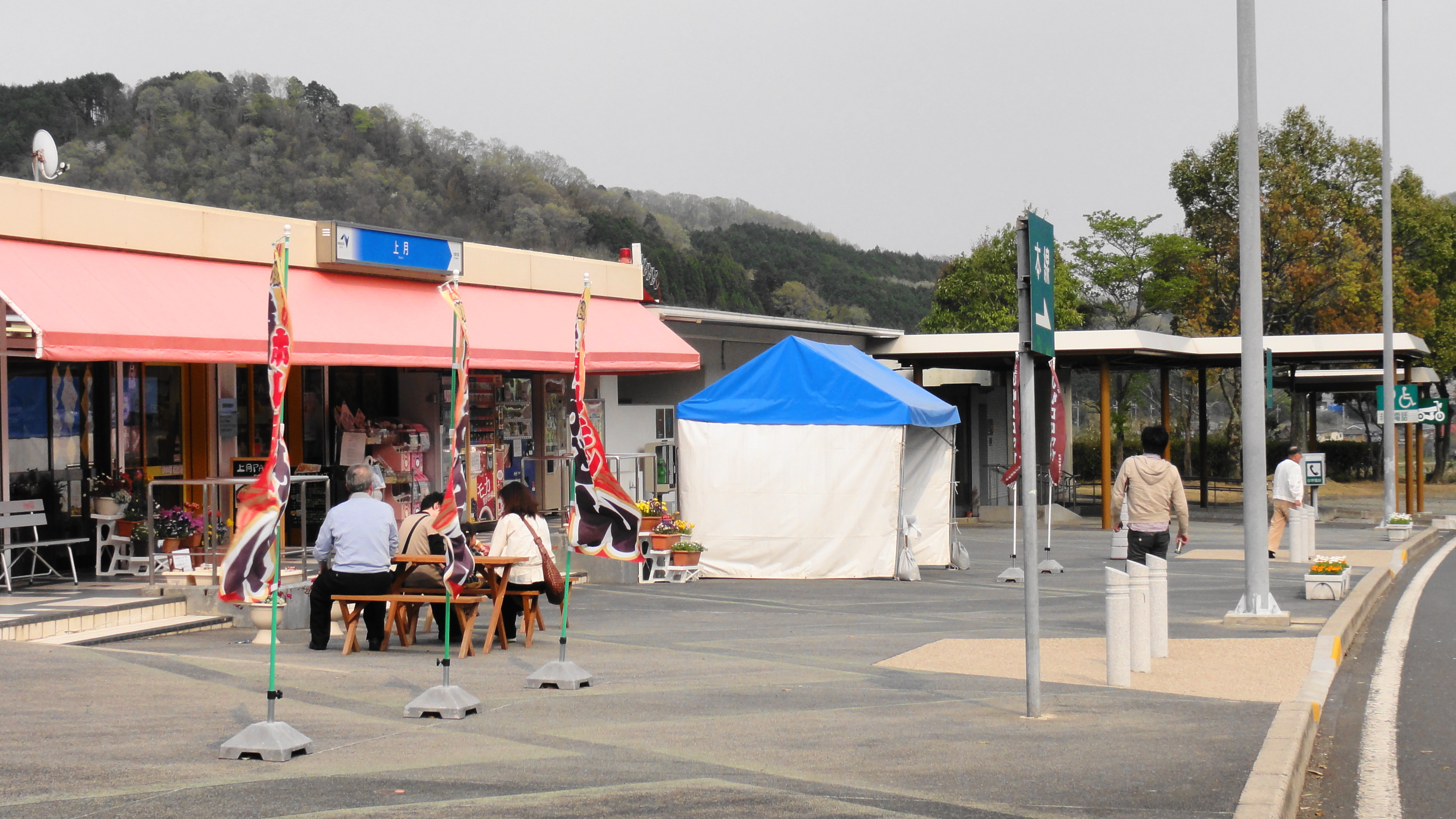 Kouzuki Parking Area,Hyogo prefecture,Japan